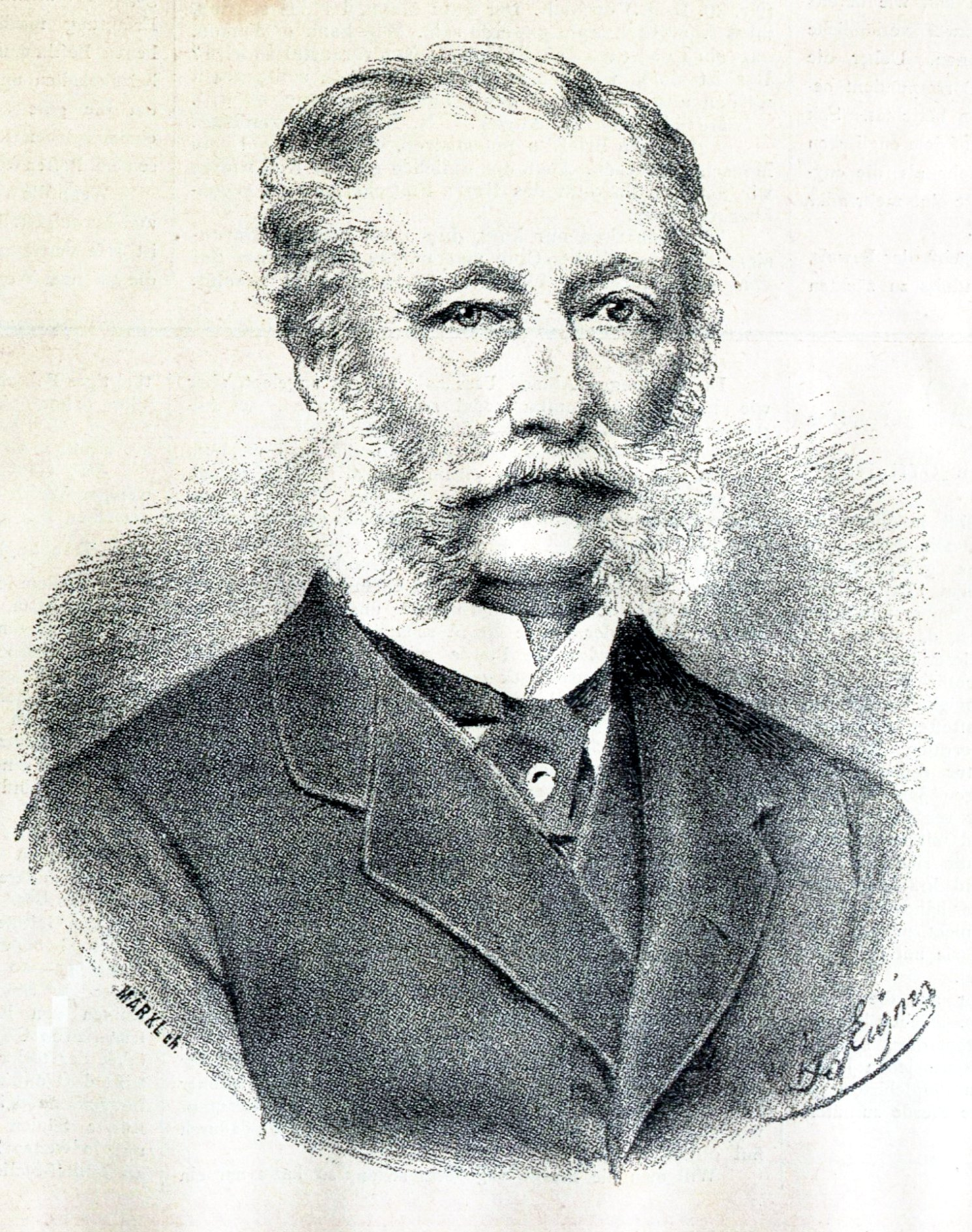 Portrait of Kurt Heinrich Ernst von Einsiedel (1811-1887), German horse-breeder and writer.